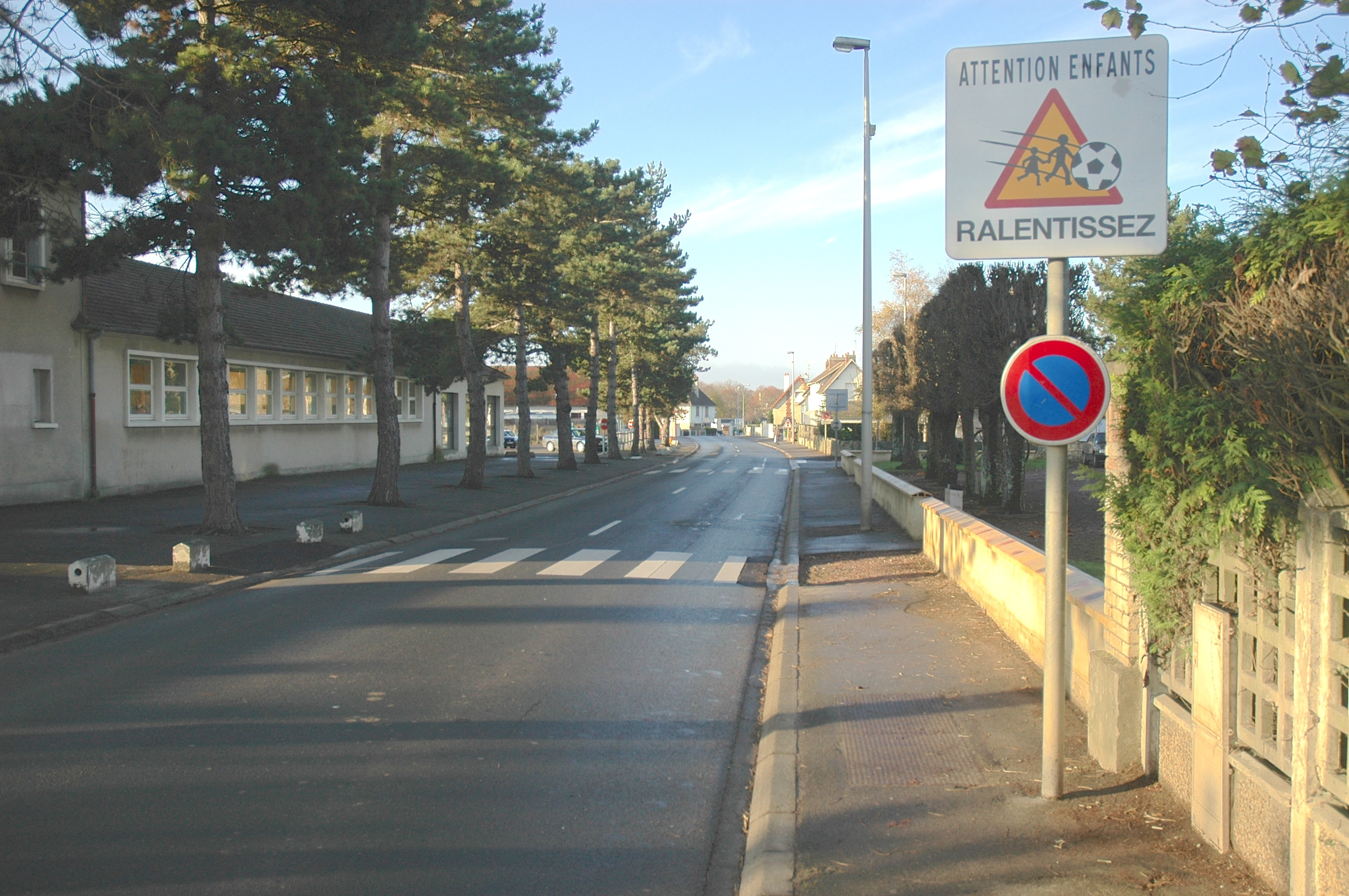 Entry from East into Saint Martin-de-Fontenay